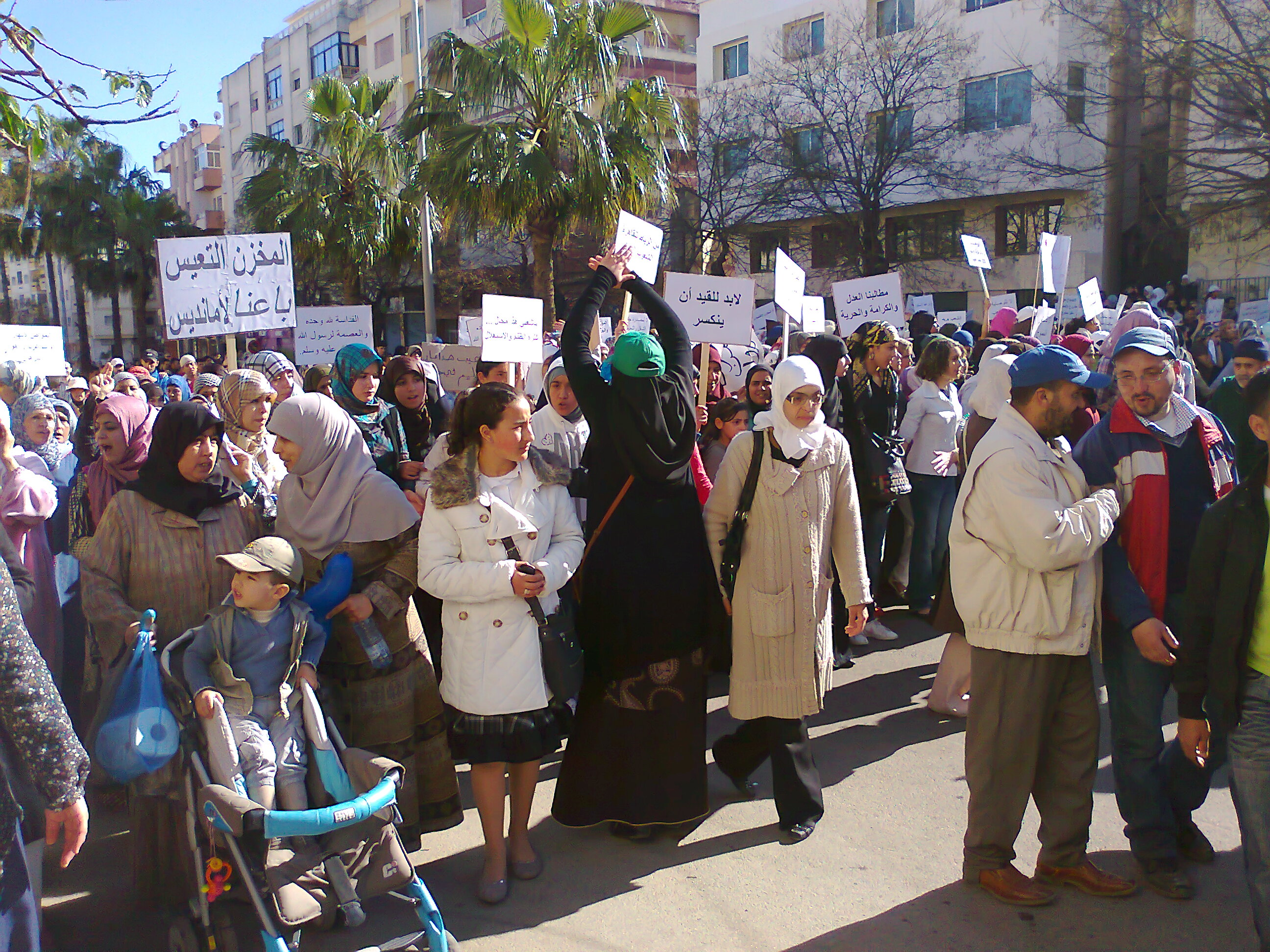 2011 Riot Morocco